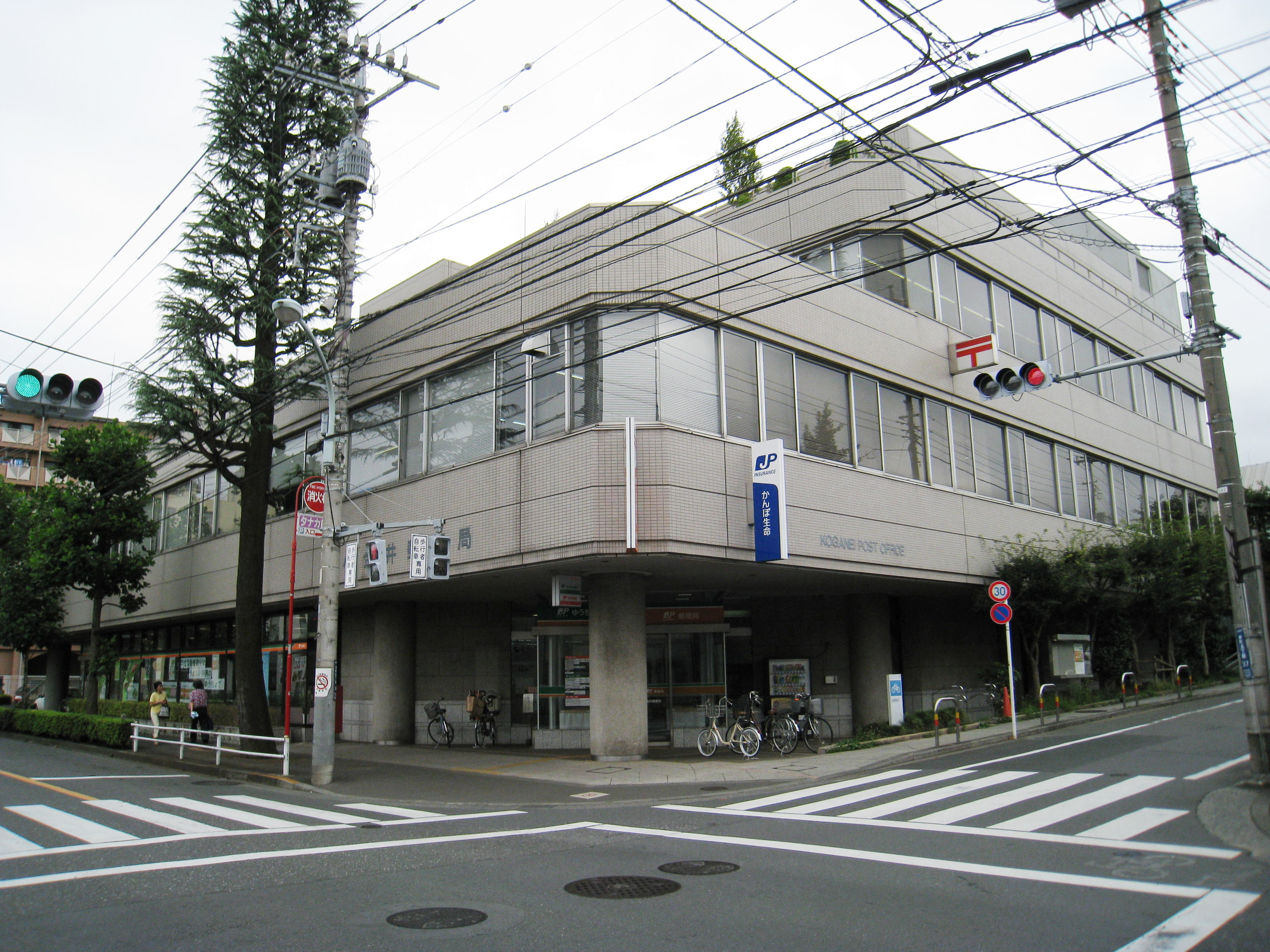 Koganei postoffice. Koganei-city, Tokyo, Japan